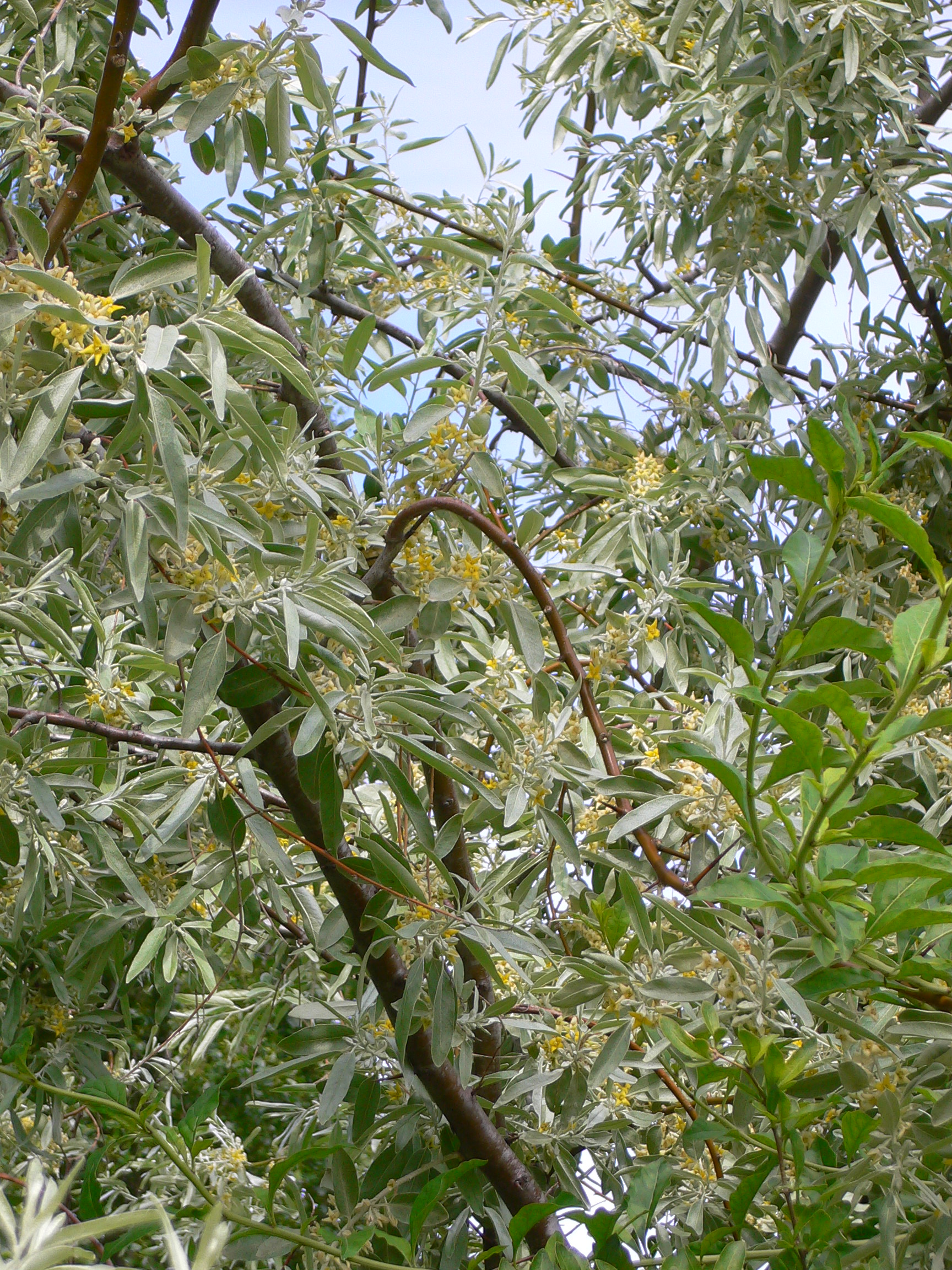 Oleaster Elaeagnus angustifolia about 5 m high, Görlitzer Park, Berlin-Kreuzberg, Germany.